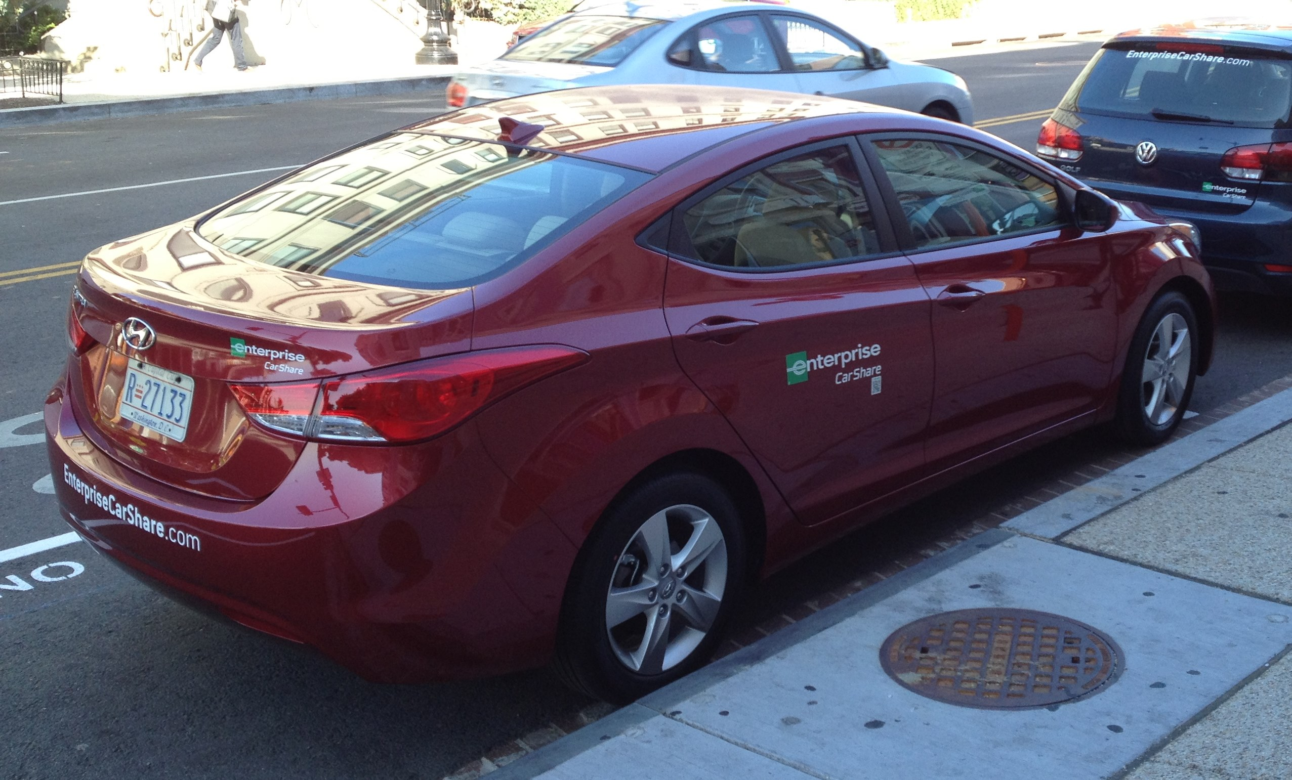 Enterprise CarShare cars on a street in Washington, D.C. Over 8 million people call New York home. Suffice to say, the vast majority of citizens will confess NYC is the greatest city on the face of planet earth. There is something to interest everyone and hiring a luxury car new york will get you around with style and comfort.